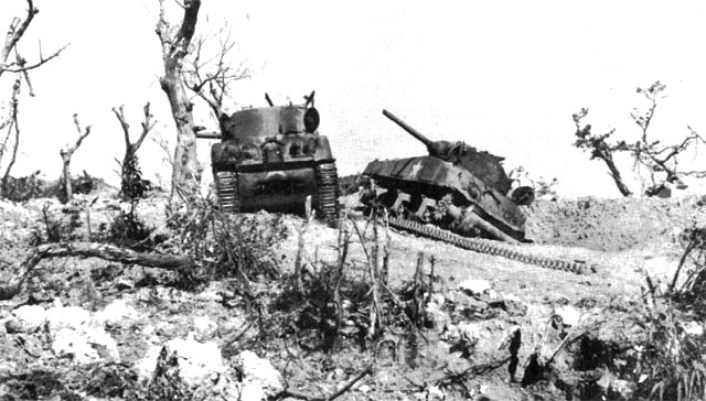 The attack on bloody ridge of 20 April was marked by severe fighting. During the fighting on Bloody Ridge two medium tanks were knocked out by Japanese artillery fire from the Pinnacle.